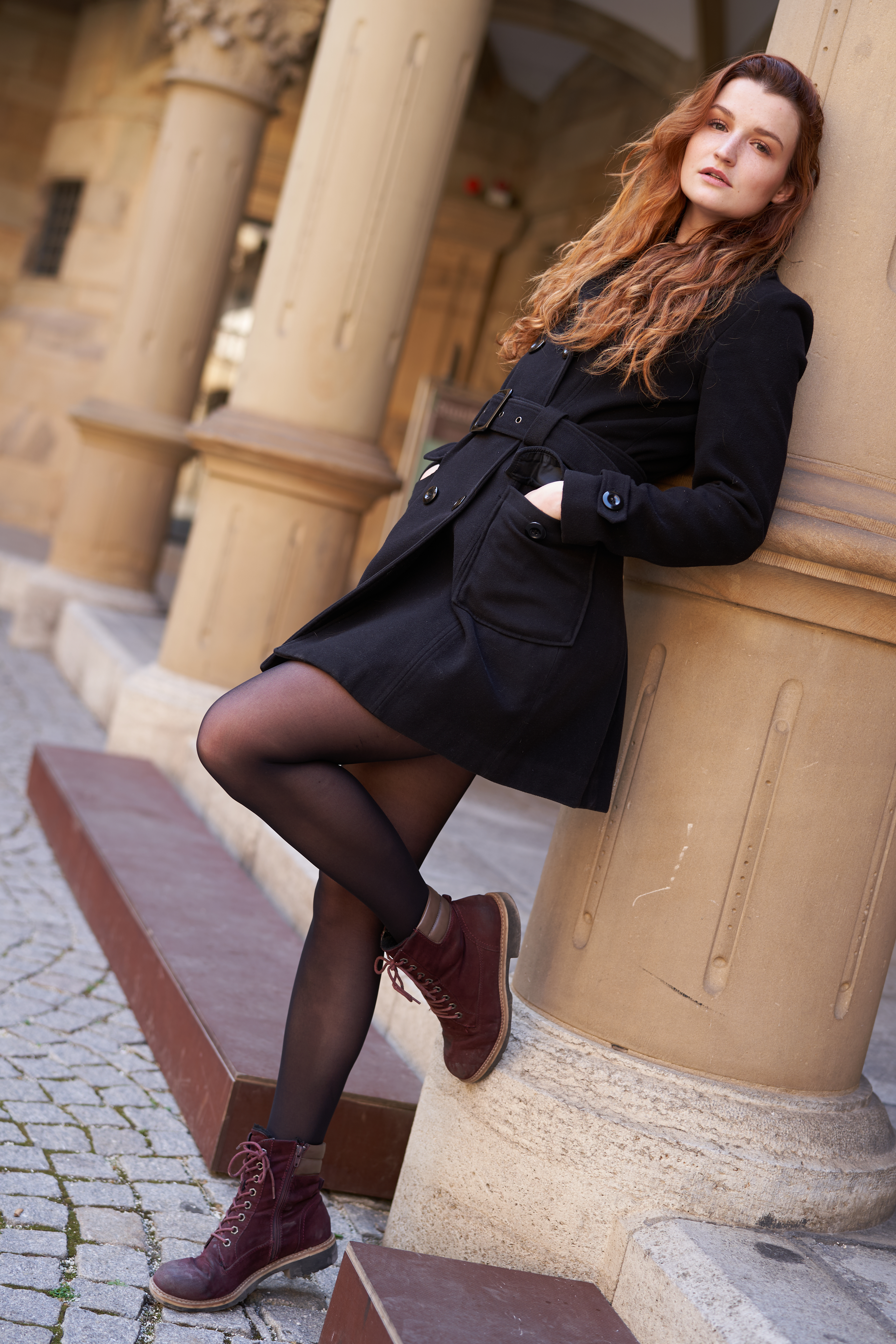 Example for use of the an Intentional camera tilt in fashion photography to fill the frame. Which in turn gives a closer look at the subject without increasing image size. Image taken with available light. Modelled by ModelTanja.